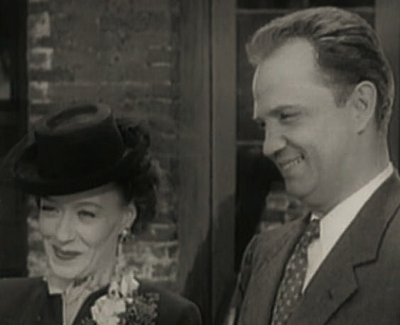 Ona Munson & Walter Sande in The Red House - cropped screenshot